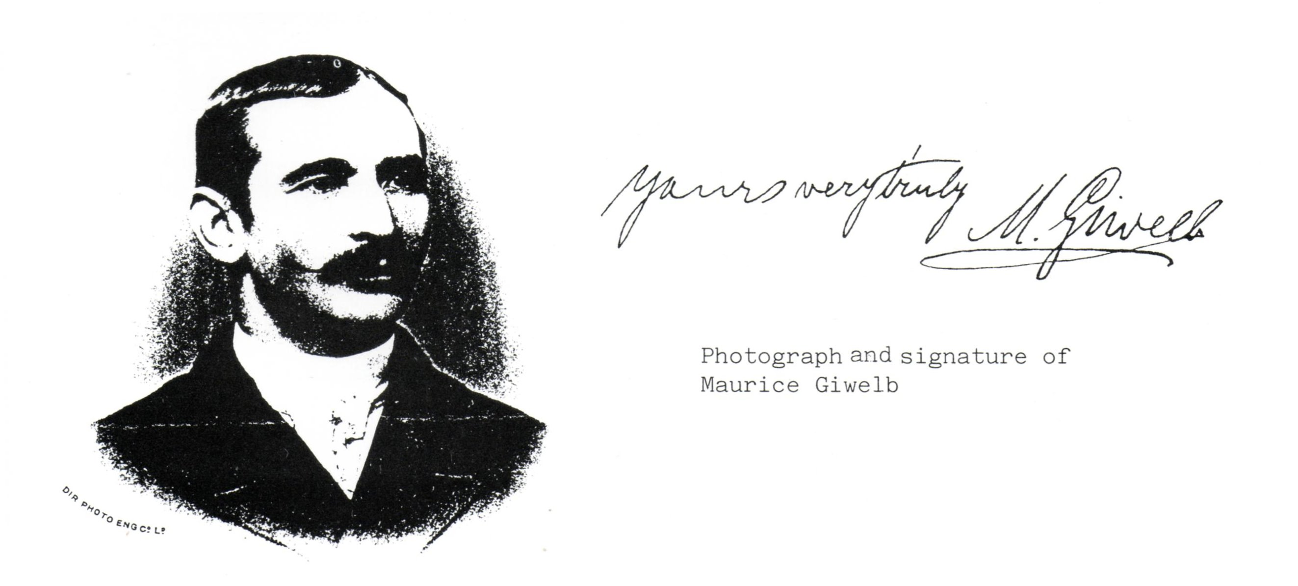 Picture of Morris Giwelb circa 1891. Reproduced in "Morris Giwelb" by Cyril Permutt in Philatelic Paraphernalia, No. 23/24, April/July 1990, pp. 333-334.